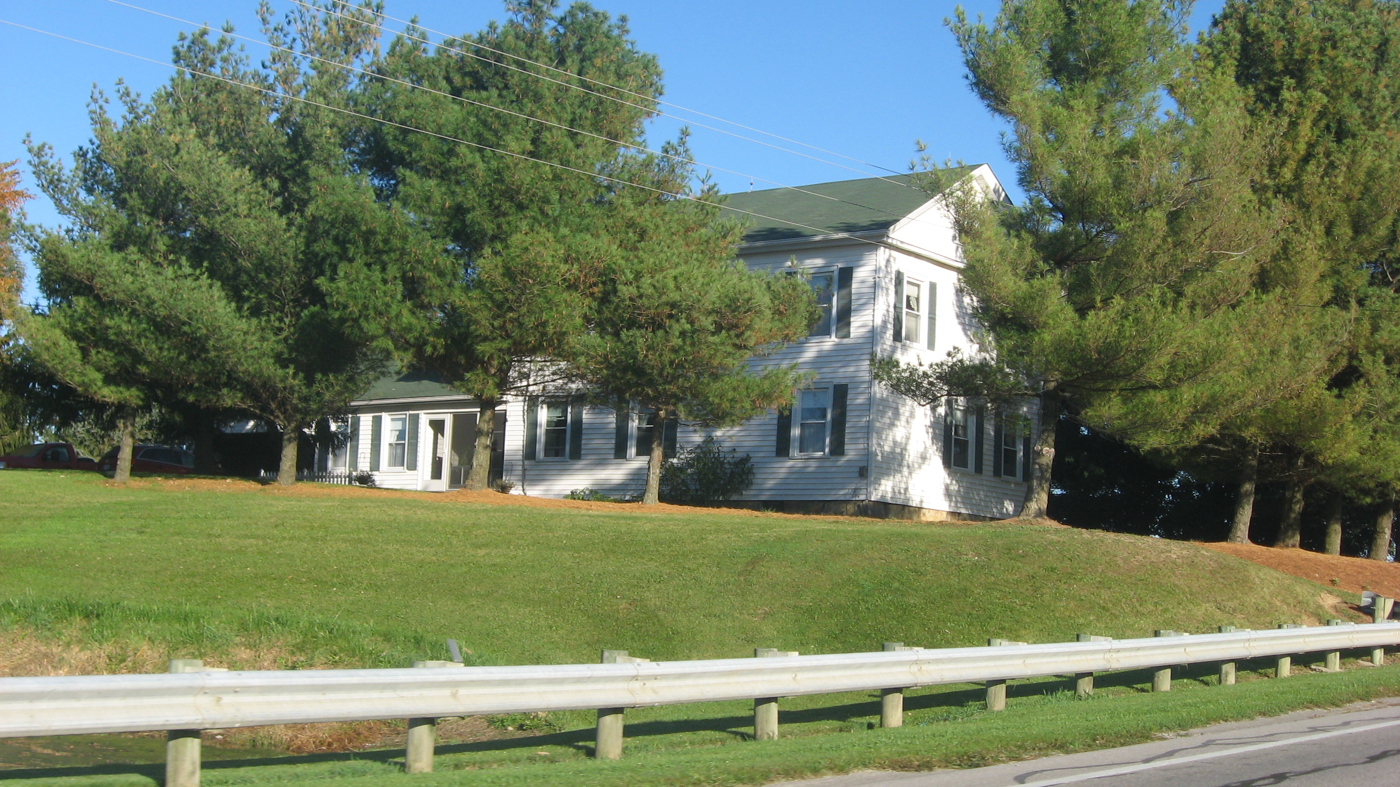 Southern side and front of the Sprague House, located at 24060 State Route 58 south of Wellington in Wellington Township, Lorain County, Ohio, United States. Built in 1830, it is listed on the National Register of Historic Places.